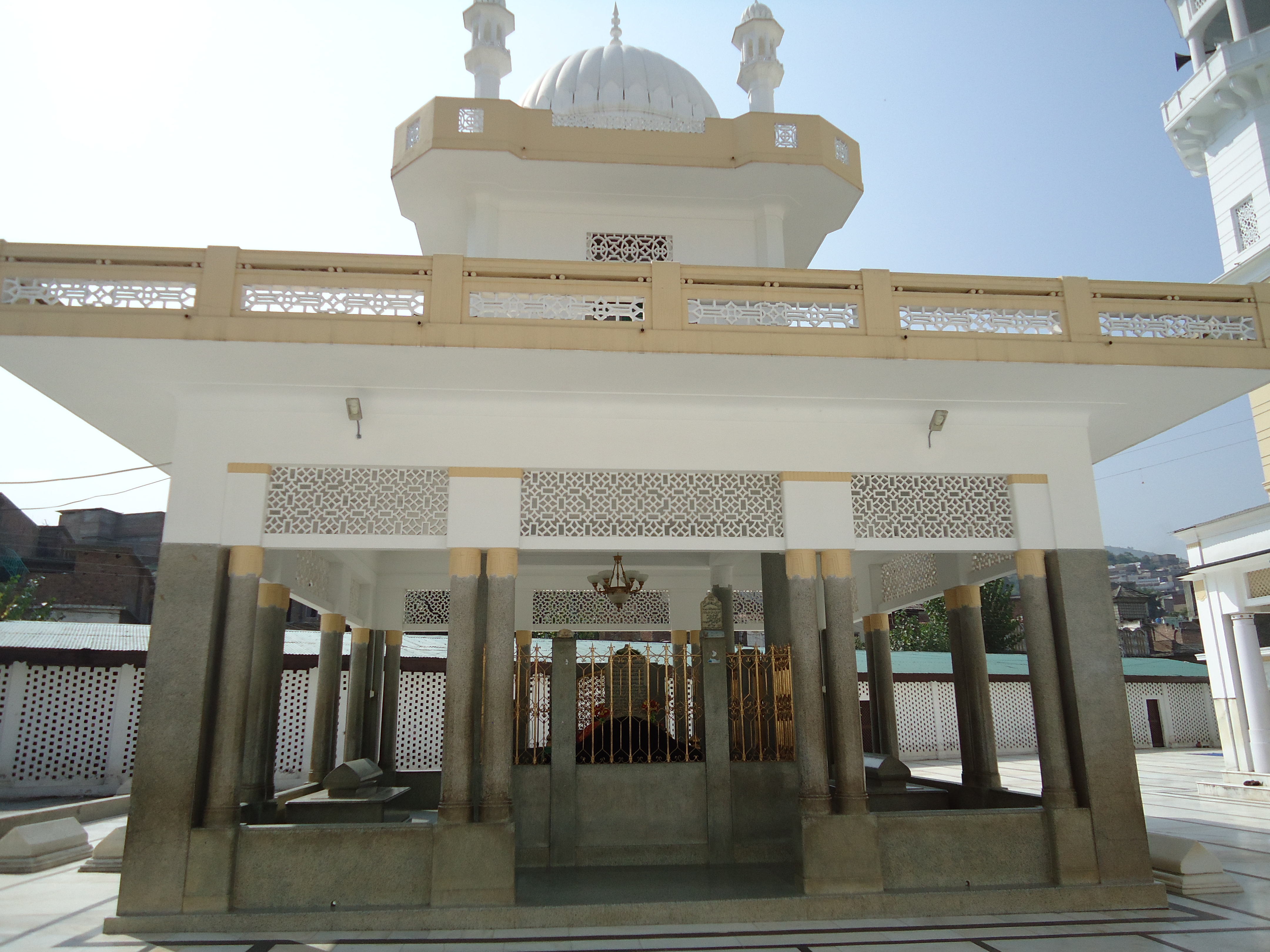 Tomb of Akhund of Swat (Saidu Baba) built by Miangul Jahan Zeb(1908-1987) (Wali of Swat)